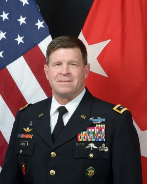 This is the official photo maintained by the U.S. Army General Officer Management Office for MG Mark J. O'Neil